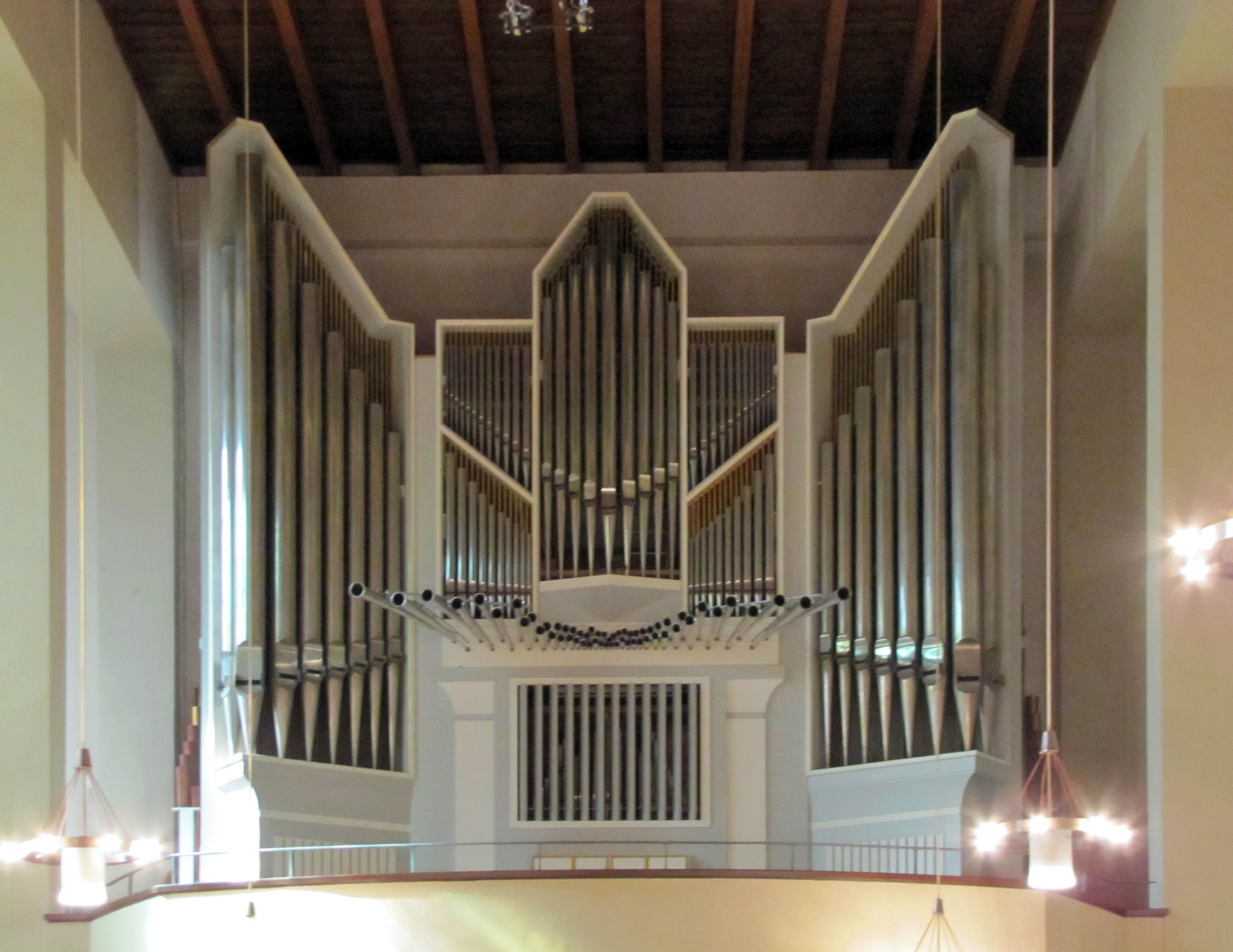 Walcker organ in the "Heiliggeistkirche" at "Dominikanerkloster", in Frankfurt am Main, Germany.